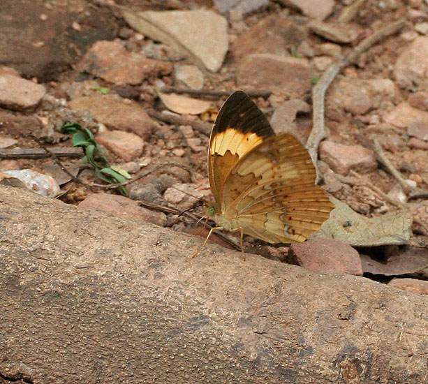 Rustic Cupha erymanthis in Talakona forest, in Chittoor District of Andhra Pradesh, India.